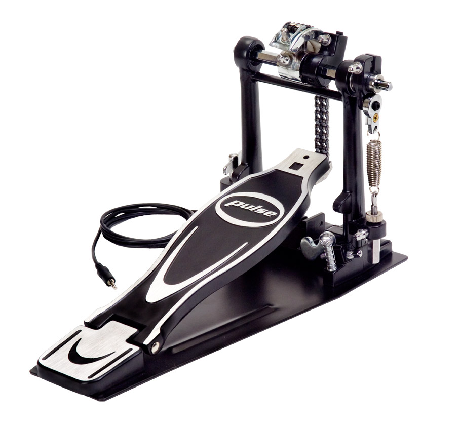 A picture of the Rock Pedal accessory for Rock Band.